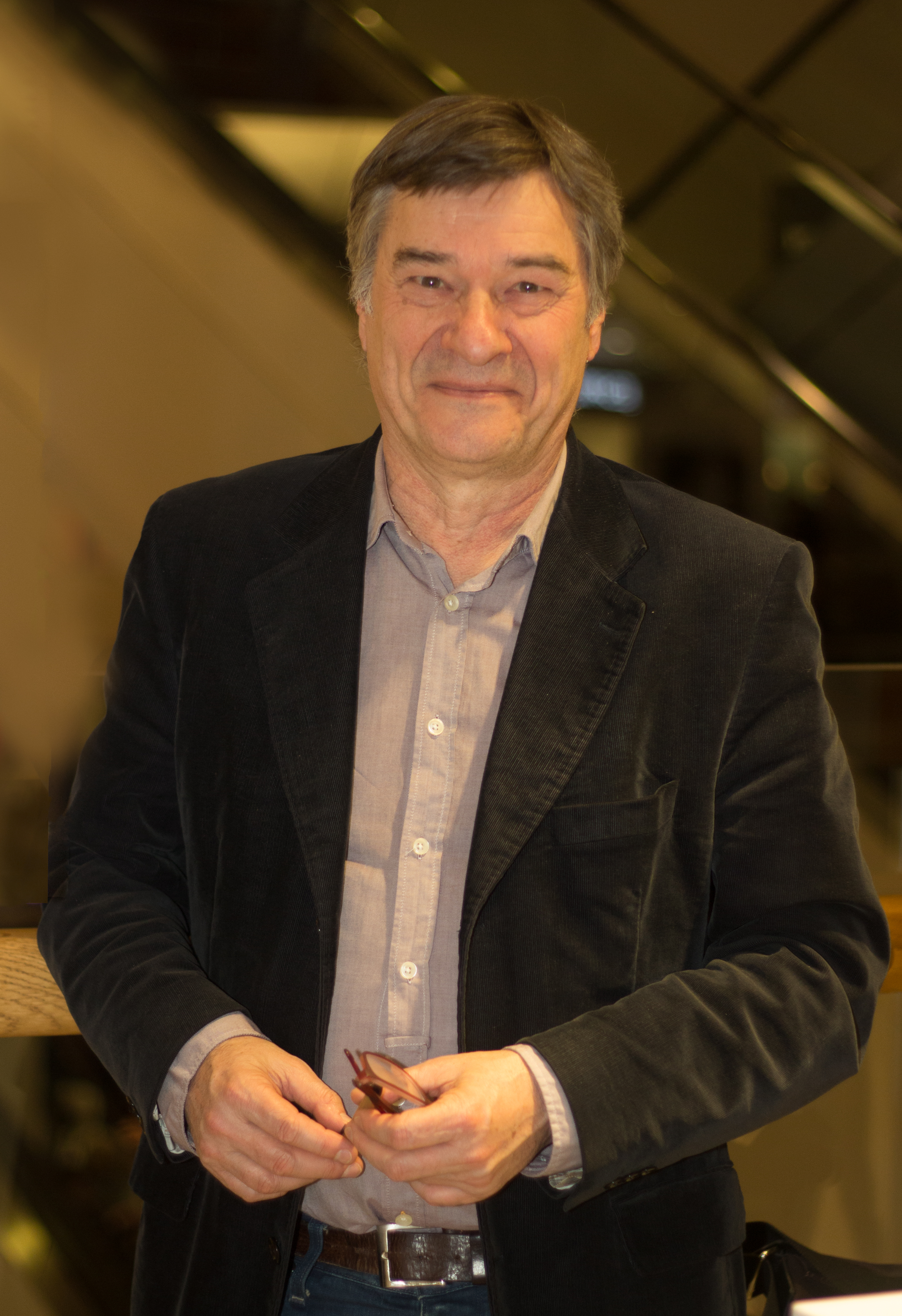 Feest der Letteren 2016